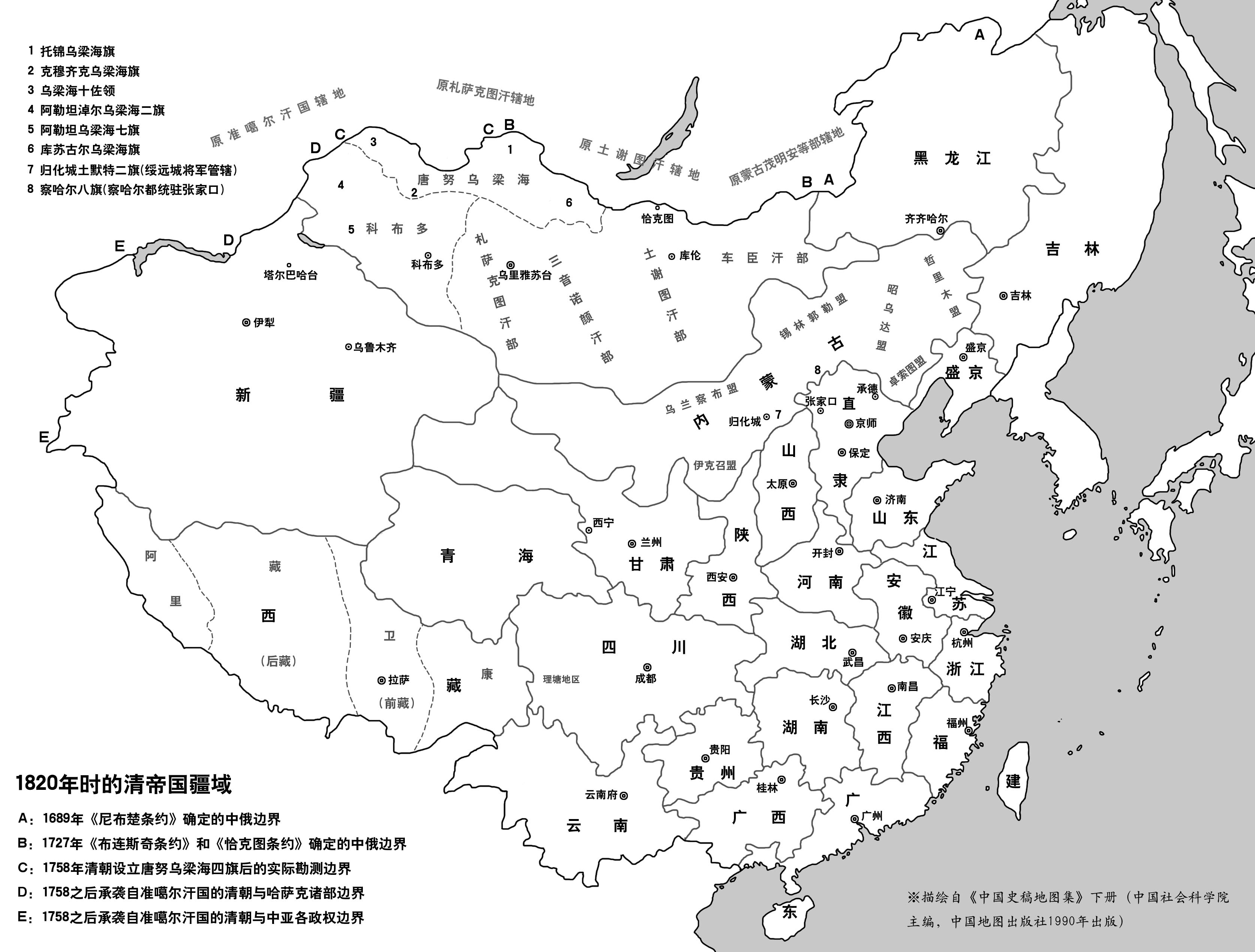 map of Qing Dynasty, as of 1820